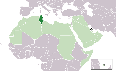 Map of Tunisia, Arab States.